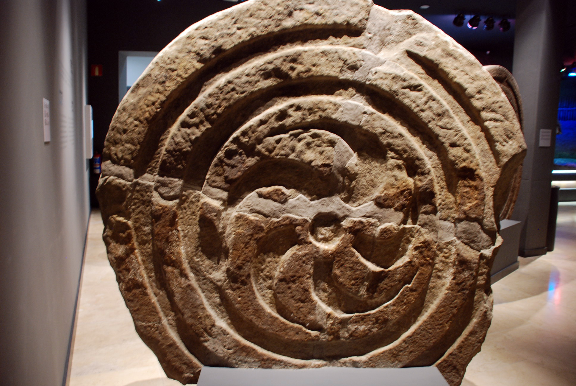 Museum of Prehistory and Archaeology of Cantabria. Reverse of the first stele from Lombera (Cantabria).